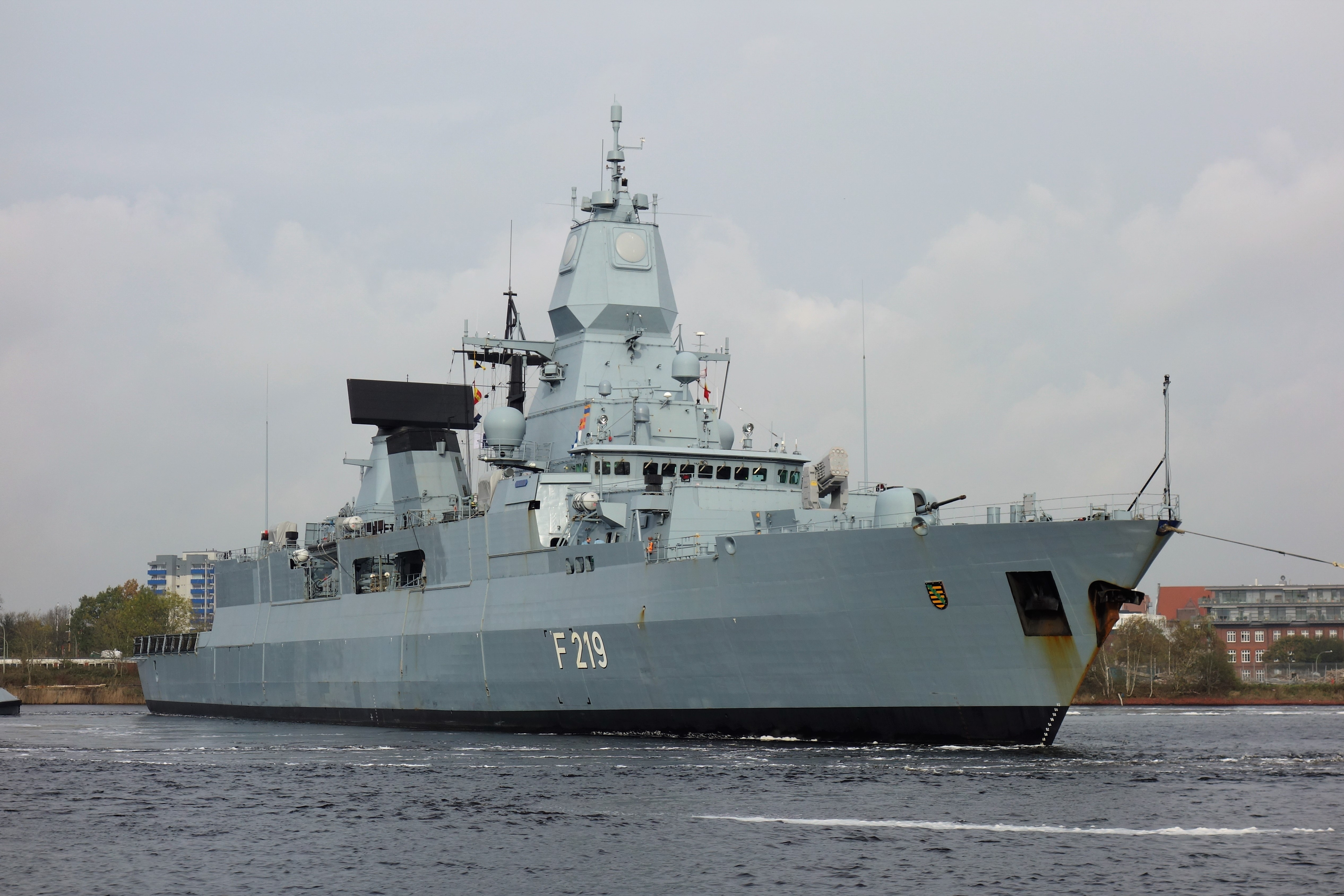 German frigate Sachsen at the deperming range in Wilhelmshaven